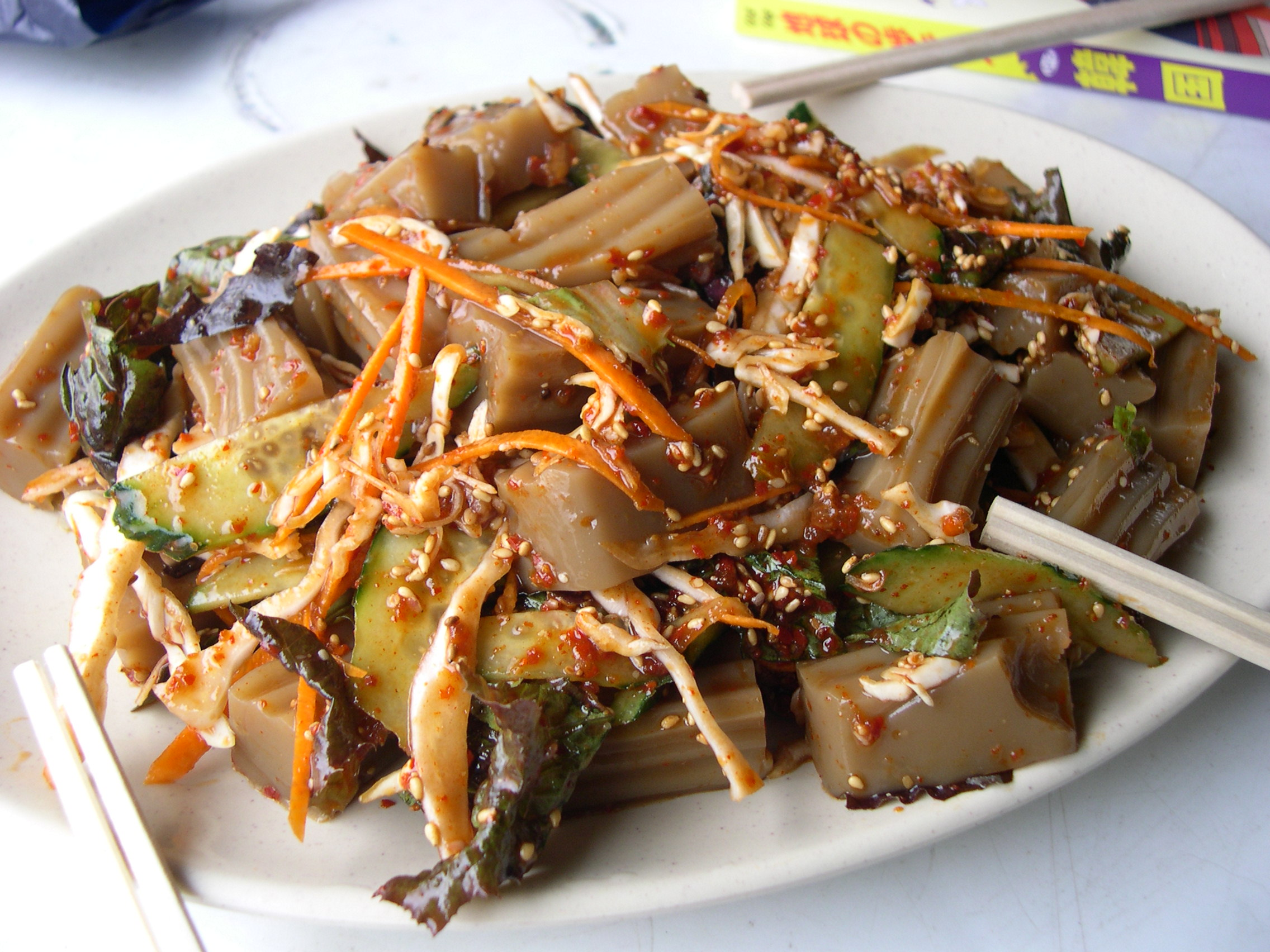 Dotorimuk muchim - healthy and nutritious!